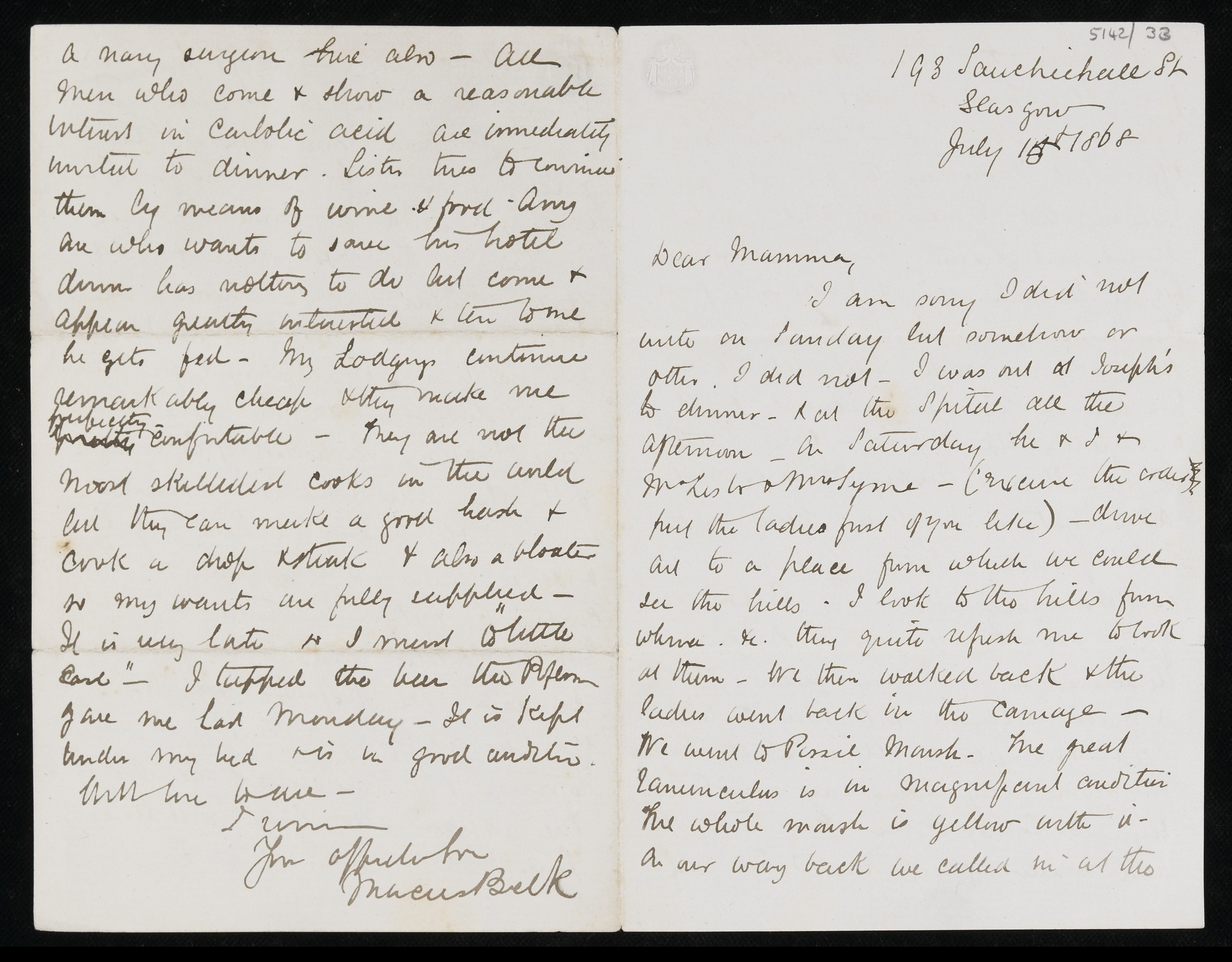 First and last page of a letter from Marcus Beck to his mother concerning his time spend with Joseph Lister Archives & Manuscripts Keywords: Joseph Lister; Marcus Beck